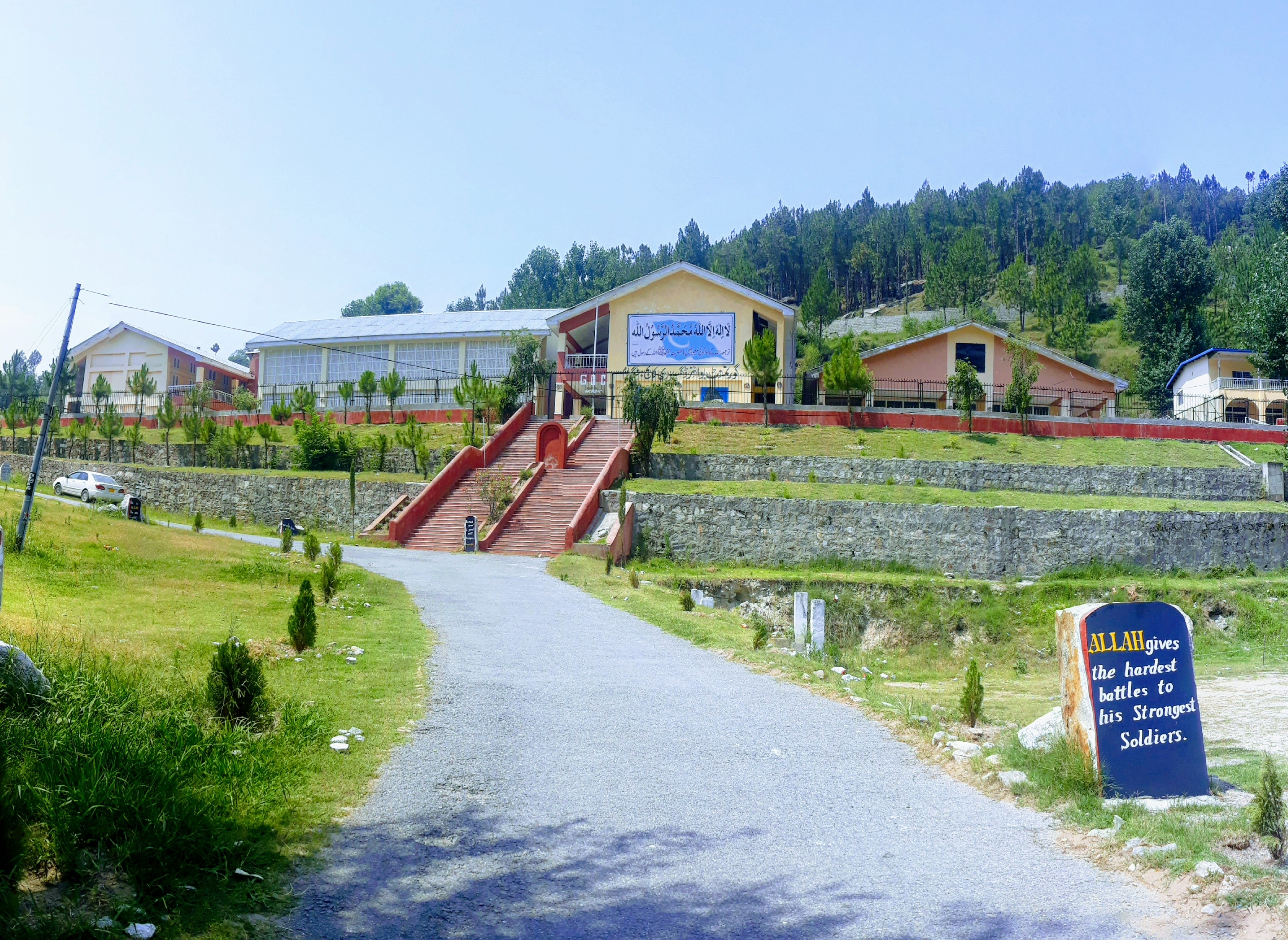 Govt Degree College Battagram, Captured by Anas Khan on 3 July 2019